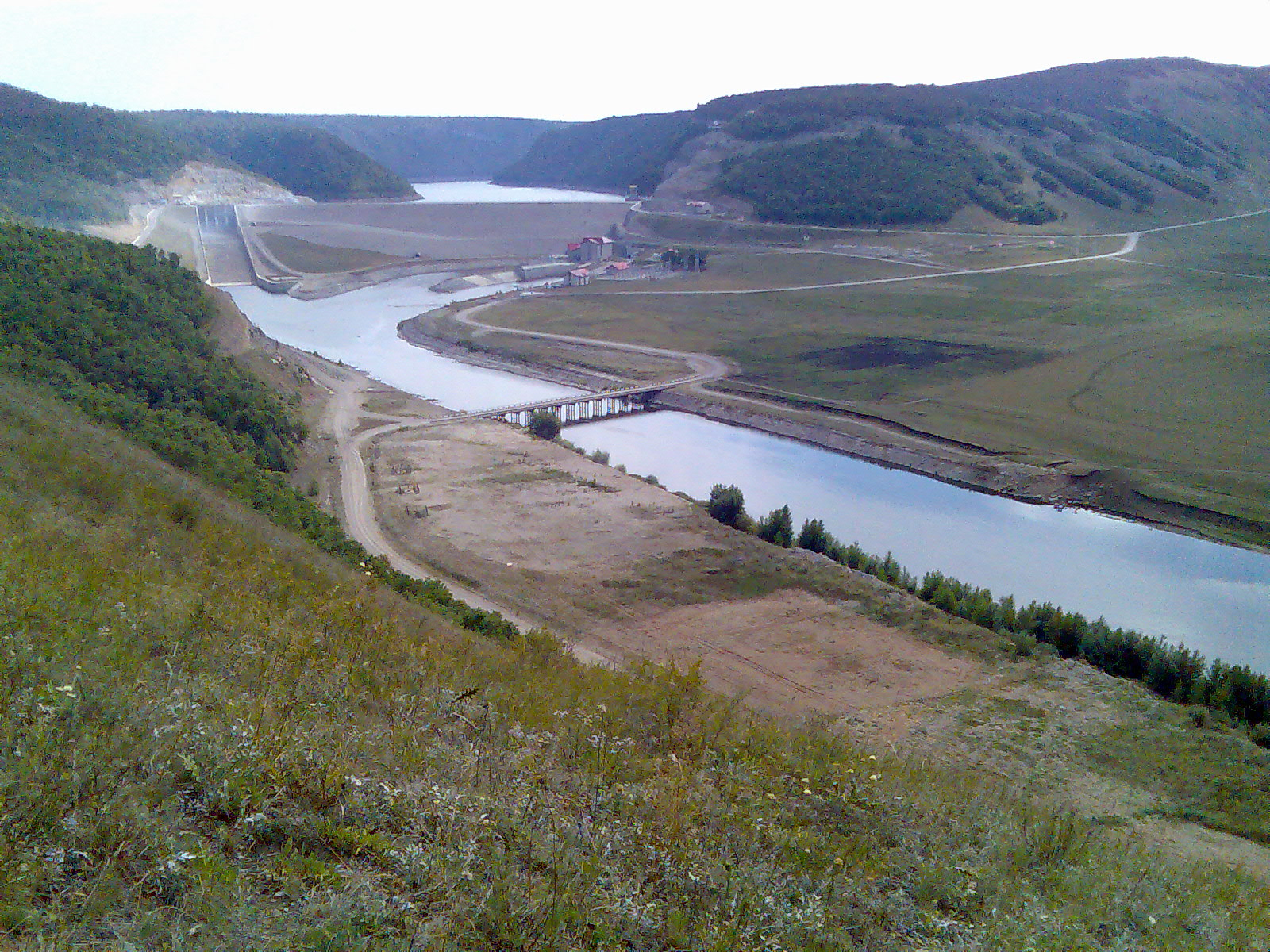 Yumaguzino Hydroelectric Station.